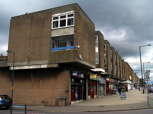 Crow Lane in Henbury, Bristol.